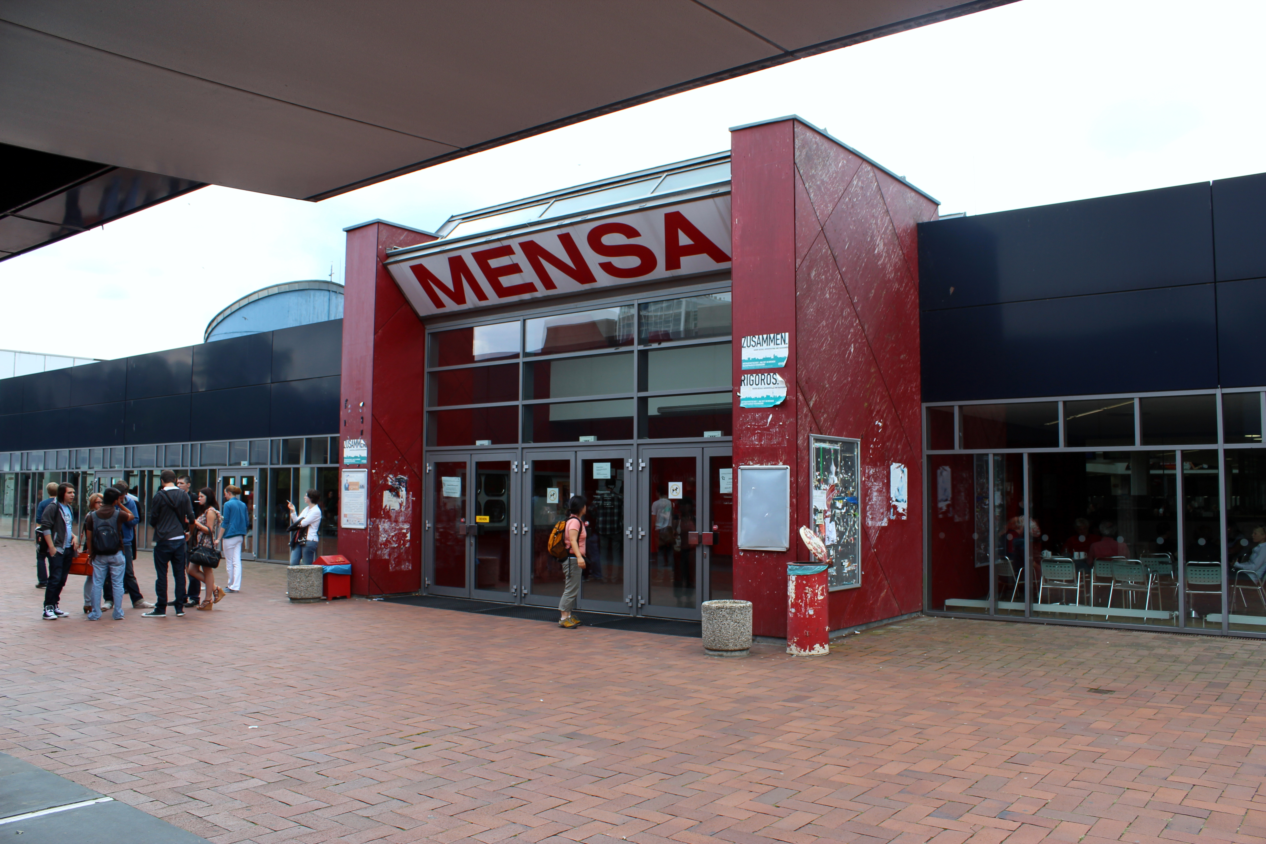 Entrance of the canteen, University of Bremen